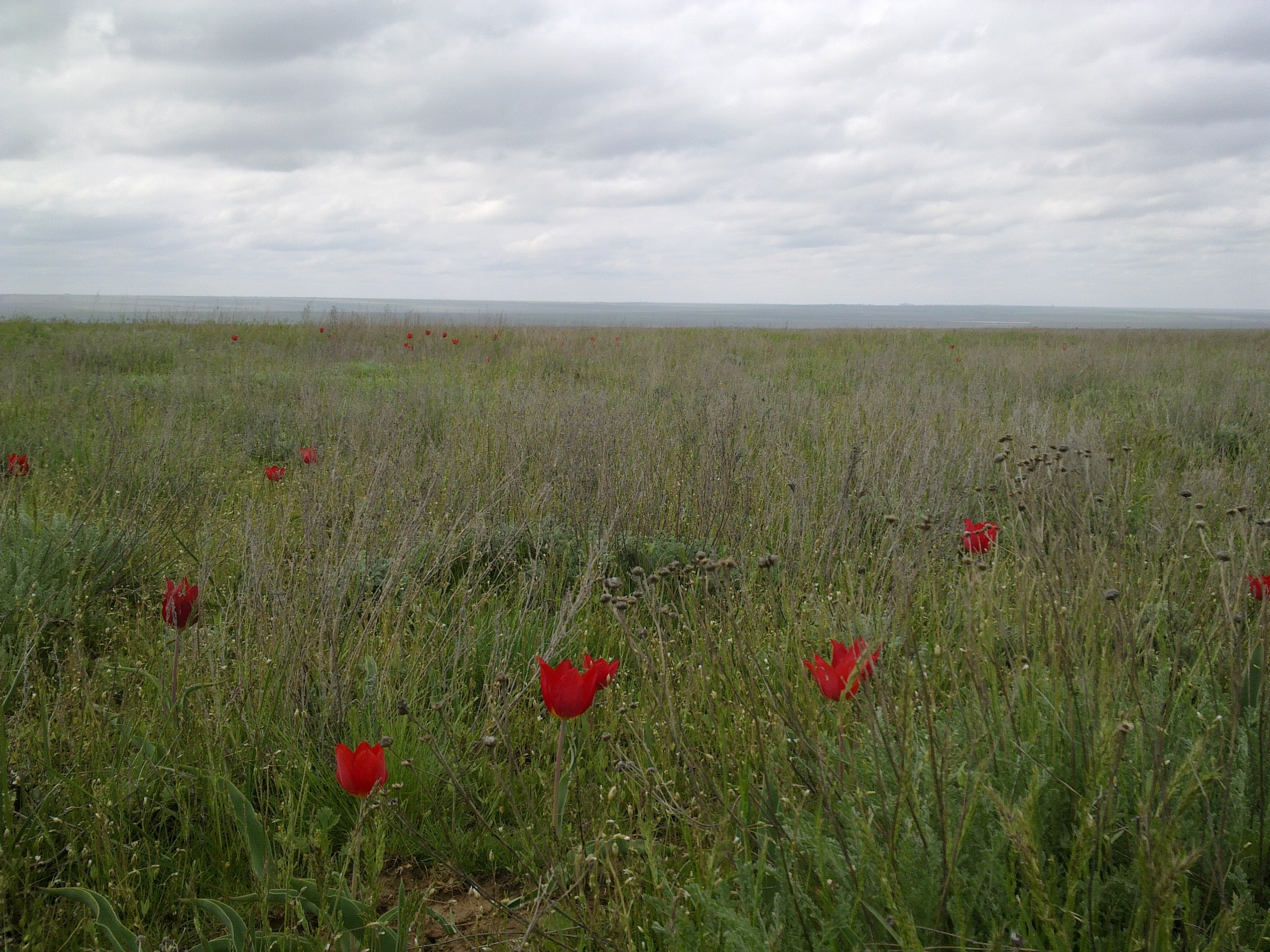 Flora of the Republic of Kalmykia, South European Russia.